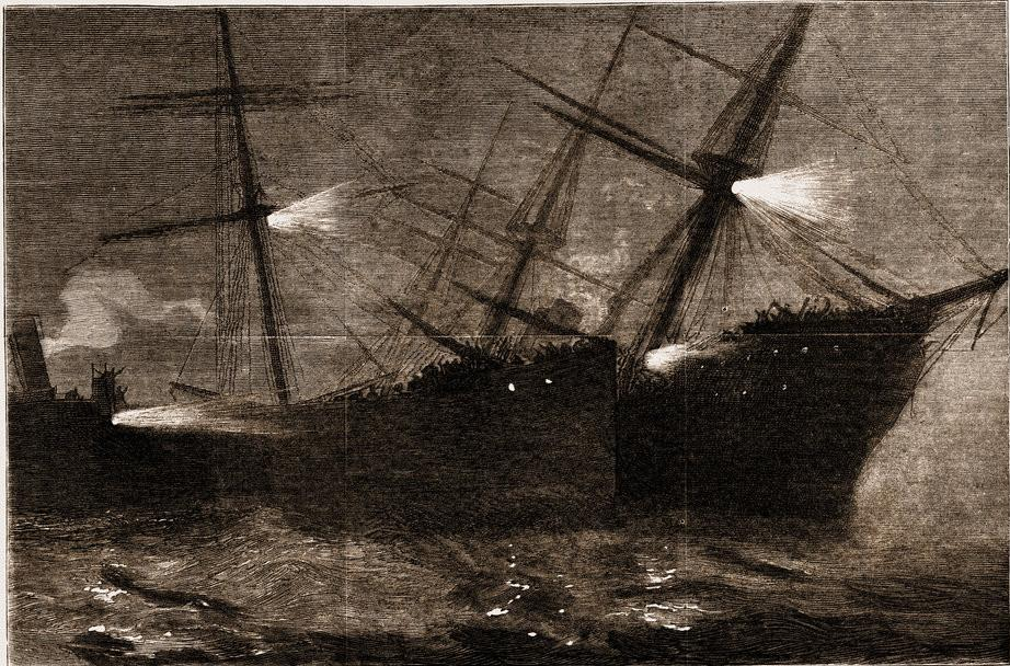 The fatal collision at the mouth of the Mersey, between the Inman Royal Mail Steamer City Of Brussels and the Hall Line steamer Kirby Hall, in 1883